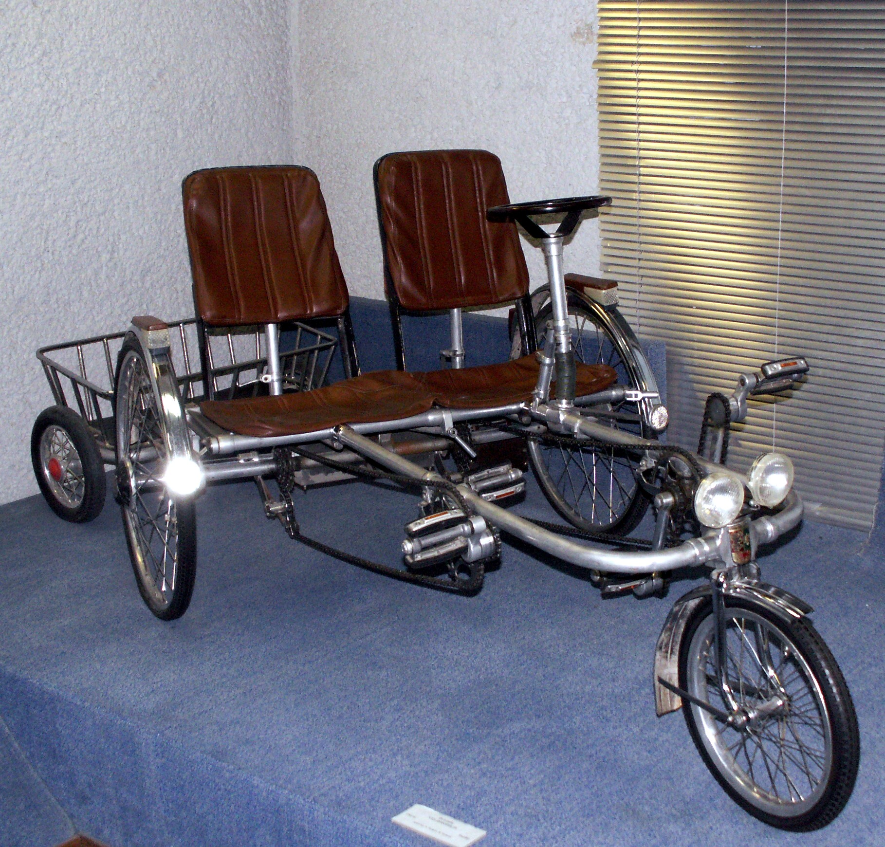 Cycling museum in Šiauliai, Lithuania